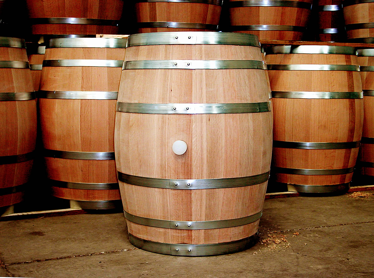 Wine barrels at the storage room at Tonelería Nacional, Chile